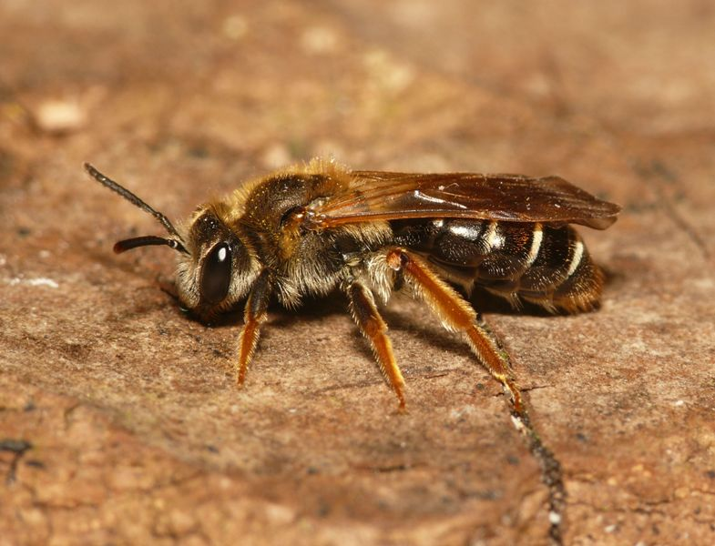 Andrena chrysosceles, female. Location: Rhenen - Blauwe Kamer (The Netherlands)